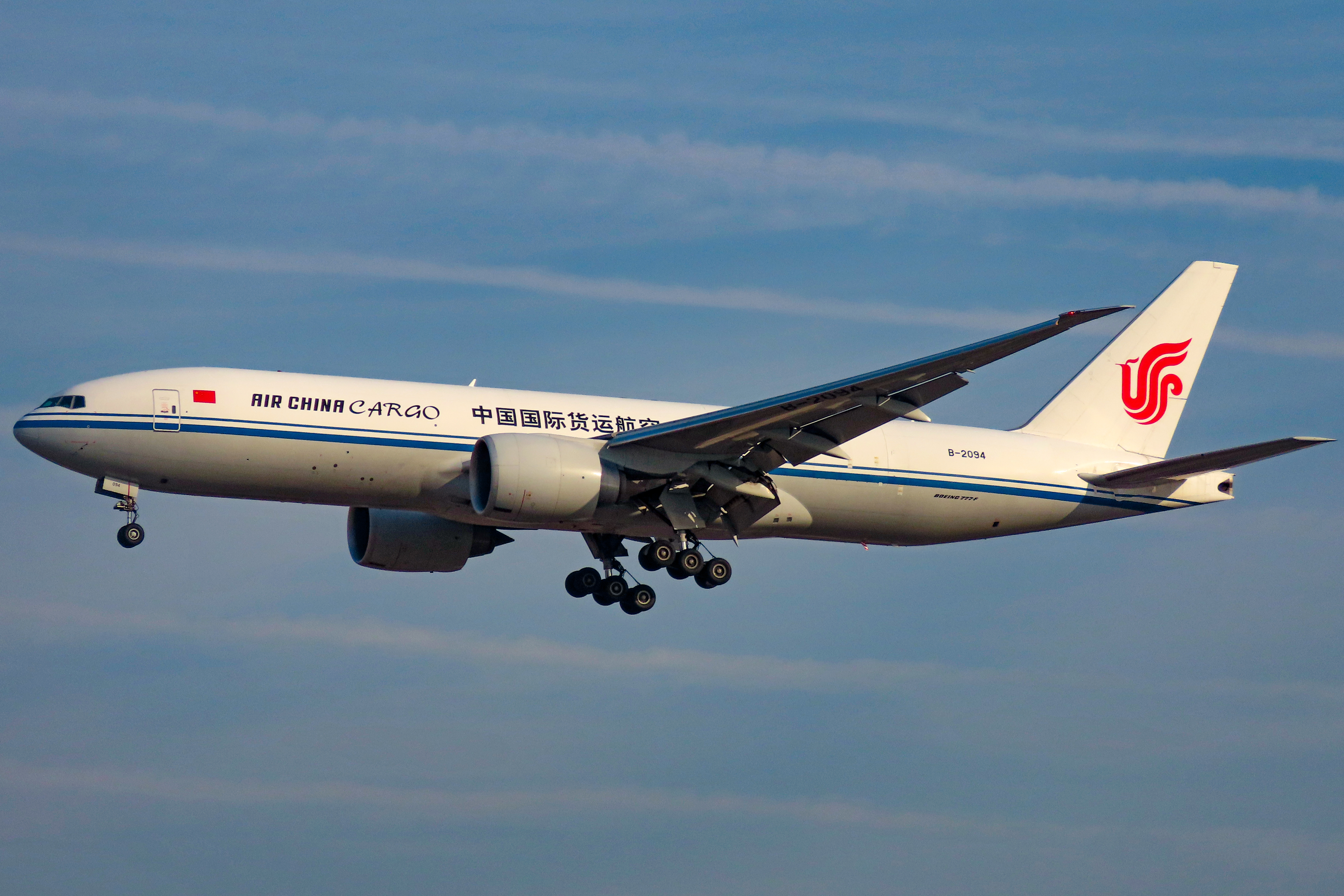 Fenghuang 1020 from Dallas and New York.